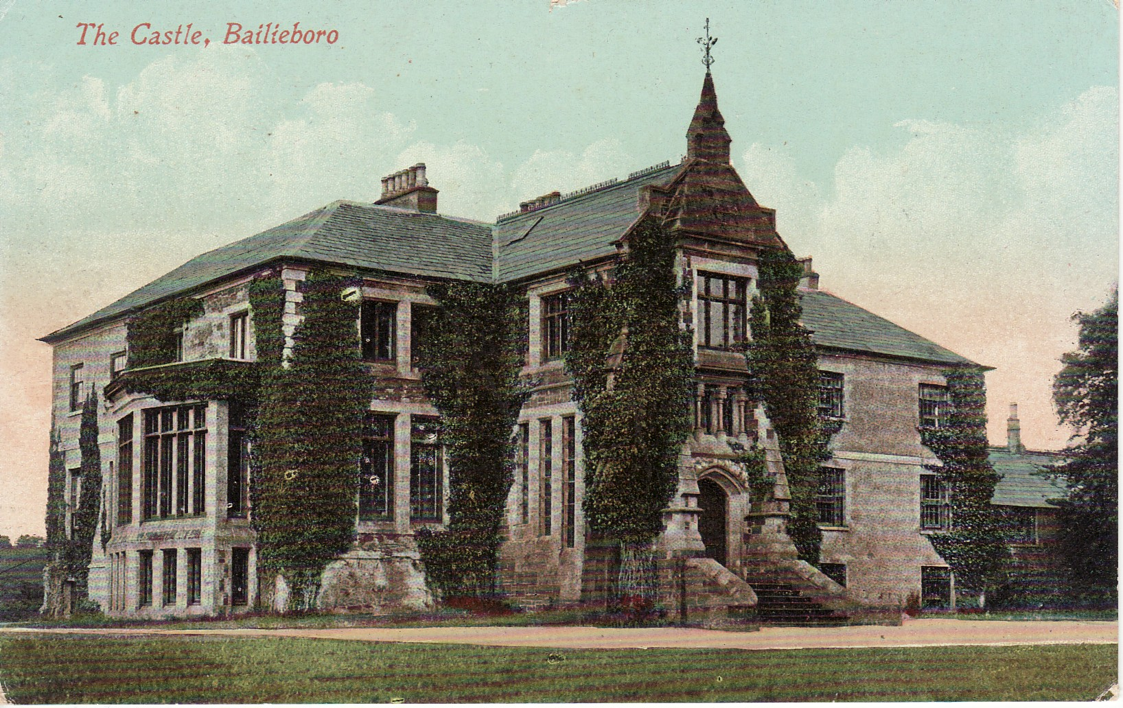 An image of Bailieborough Castle from the Coleman Photographic Collection, Bailieborough.